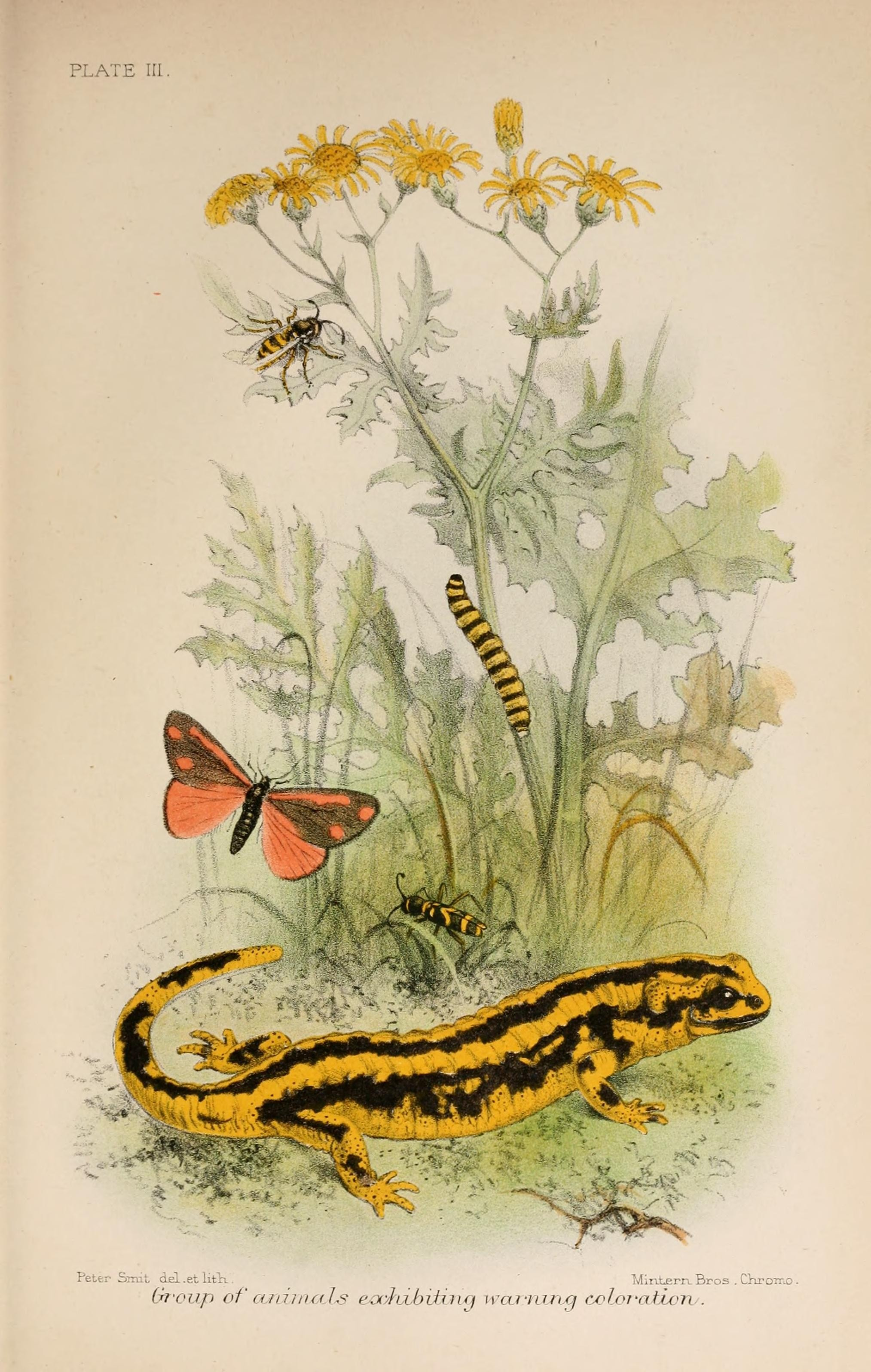 PLATE III. ' Jim: ~. Peter Smit del .et lit V. of rt intern. Bros . Chroir.o . \\-ai-mncj